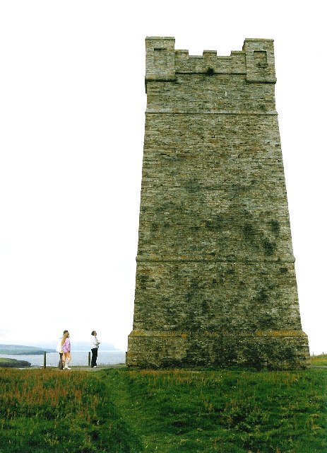 Kitchener memorial, Marwick Head. In 1916 Lord Kitchener was heading for Russia on HMS Hampshire, when it struck a mine off Marwick Head and sank with great loss of life. Strangely, all four walls of this memorial tower are solid - there is no entrance!